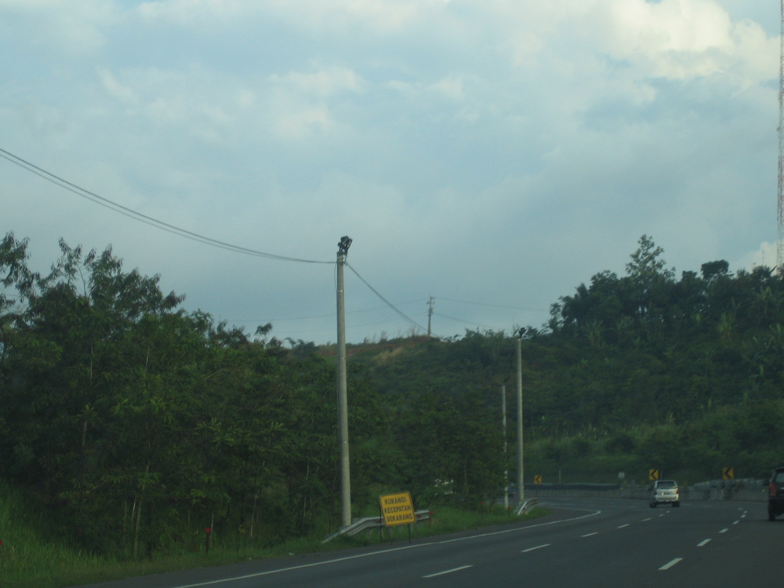 Cipularang Toll Road, KM 91, near Plered